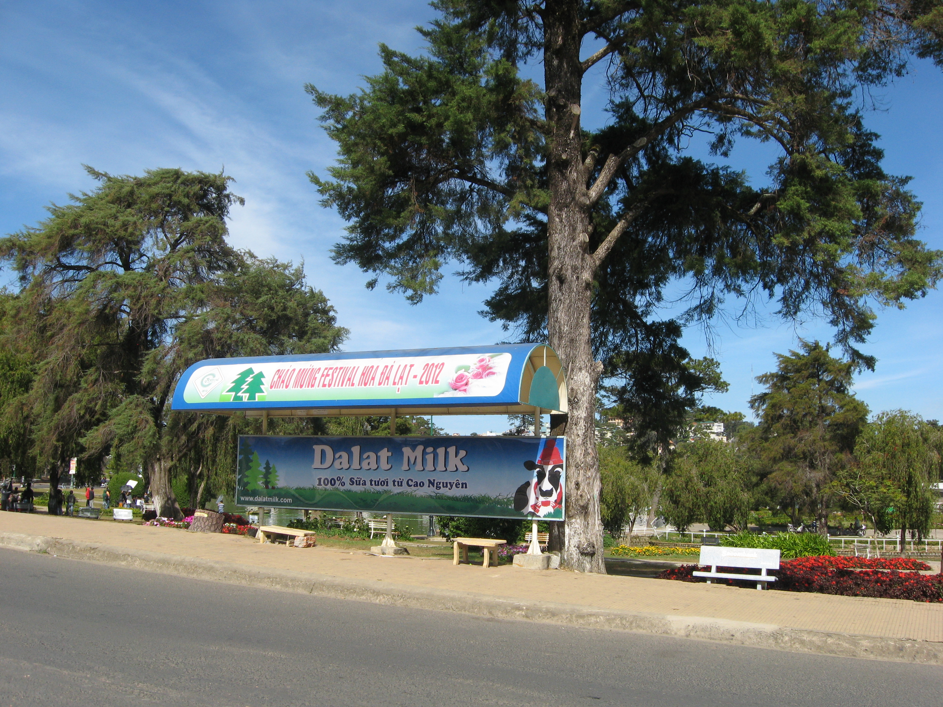 Bus stop, near Xuan Huong Lake